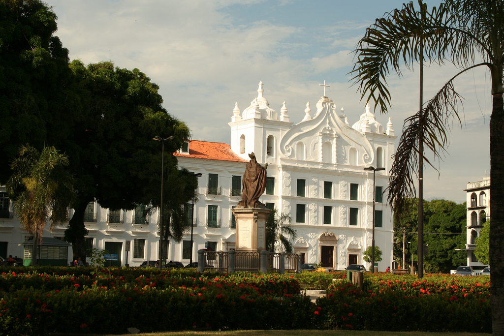 Jesuit St Alexandre college and church in Belém, Brazil